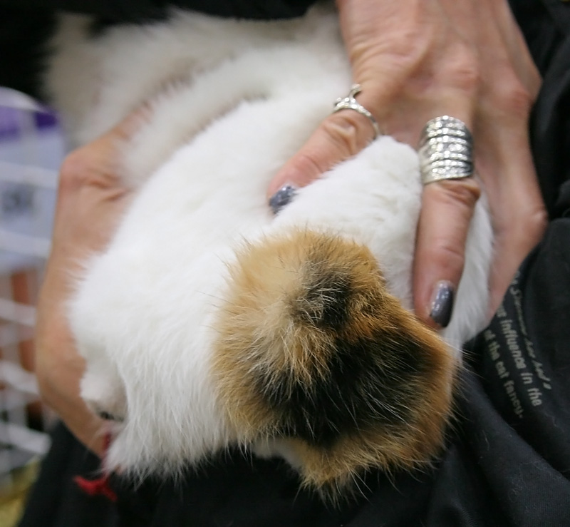 Bobbed tail belonging to a Japanese Bobtail cat. This tail's owner is a female Japanese Bobtail Shorthair CH Luomiko von der Bäderstadt [JBT] female EX1 CAP (Source ).